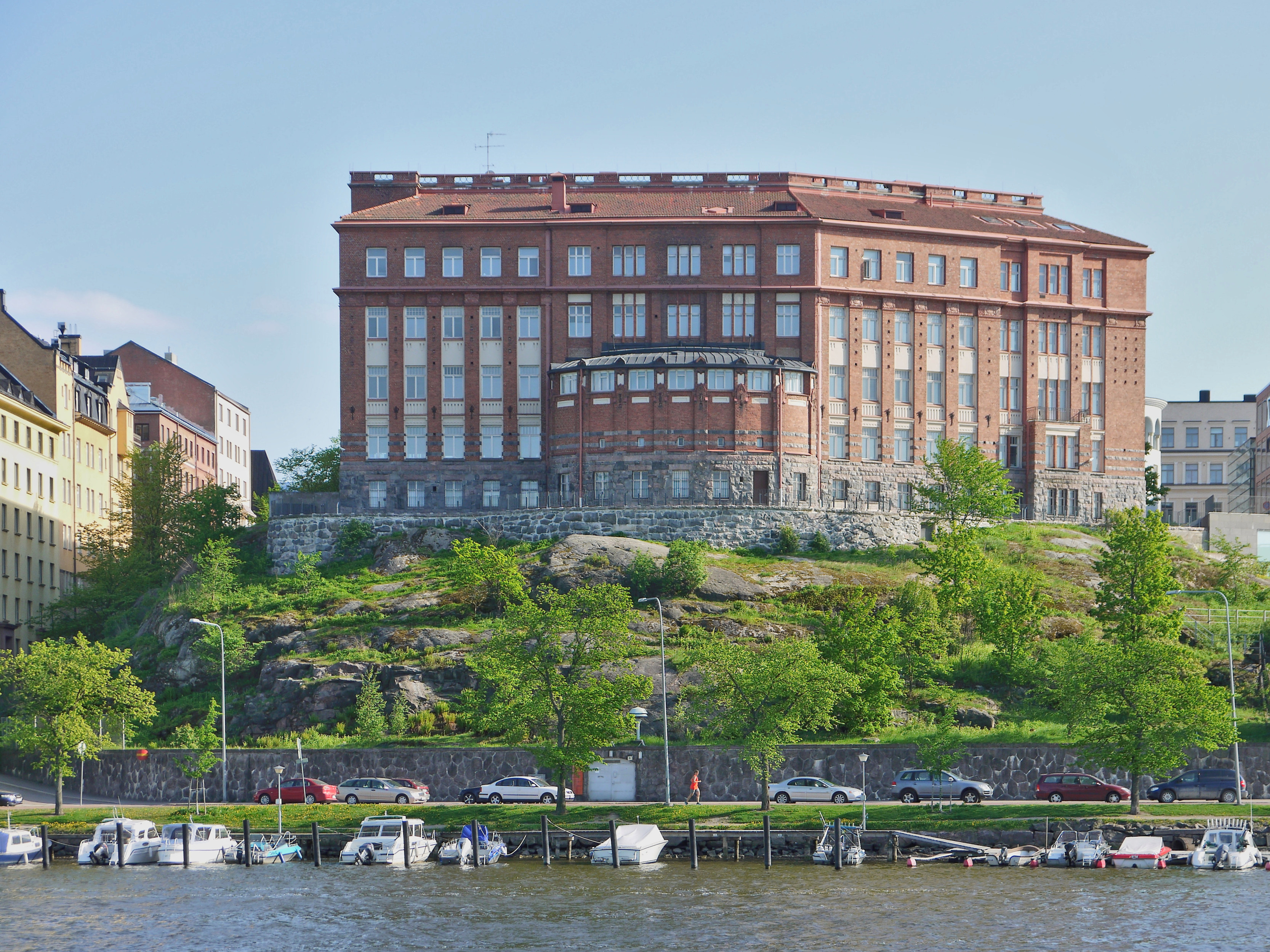 University of Helsinki faculty office building.